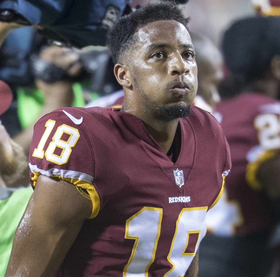 Washington Redskins players celebrate after a victory over the Oakland Raiders on September 24, 2017.